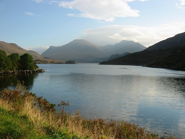 Loch Long. View northwards up the loch towards Ben Killilan and Sgumain Coinntich.